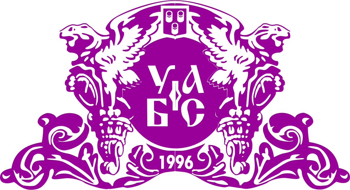 Official logo of the Ukrainian Academy of Banking of the National bank of Ukraine